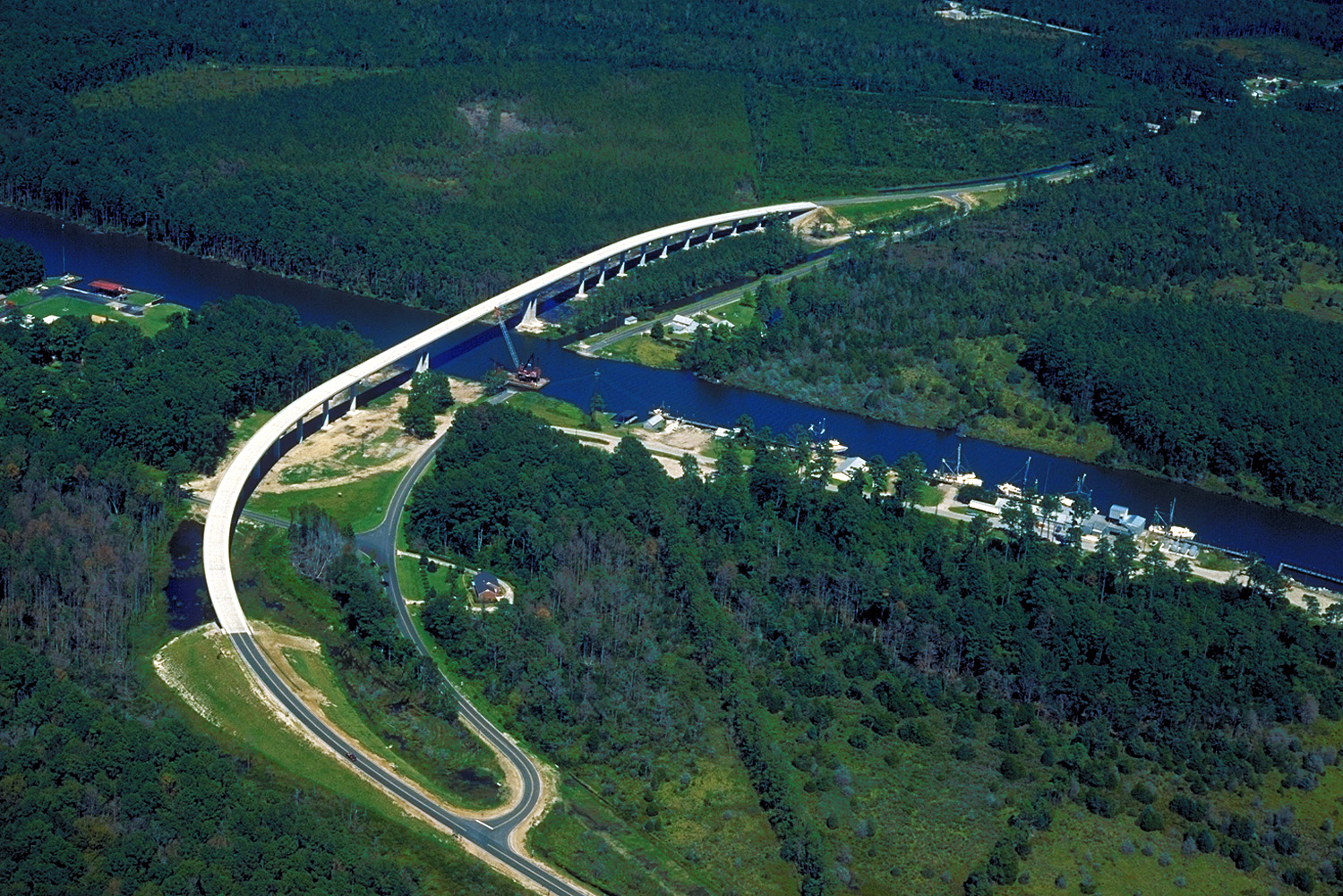 Aerial view of a stretch of the Intracoastal Waterway in Pamlico County, North Carolina, USA. The U.S. Army Corps of Engineers constructed the Hobucken Bridge over the waterway to replace an old swing-style drawbridge. The bridge carries NC state routes 33 and 304 over the waterway. Coordinates: 35°14′46.37″N 76°35′29.74″W / 35.2462139°N 76.5915944°W